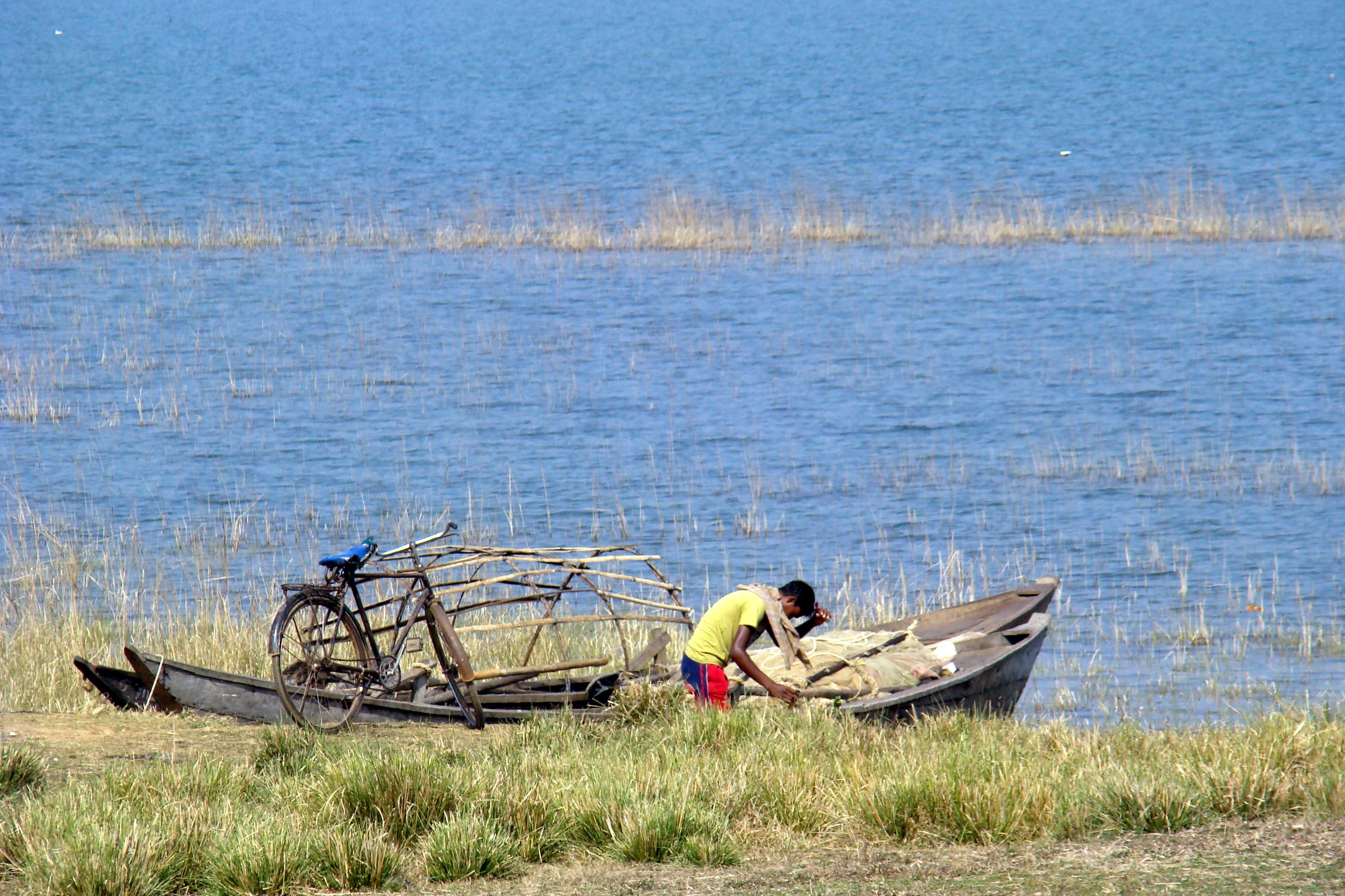 Fisherman at work in Hirakud Dam. These fisherman venture out to the lake early morning, return with their catch by afternoon. This is their livelihood.